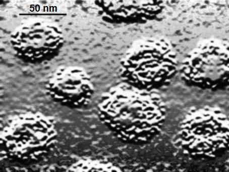 EM of Pap virus, shot taken from lab, computer enhanced. Scale at top left